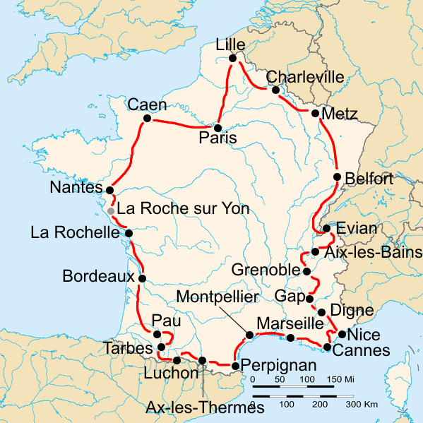 Route of the 1934 Tour de France, starting and finishing in Paris. The black dots are the cities that hosted a stage start and finish, the grey dots are the cities where a split stage was split.